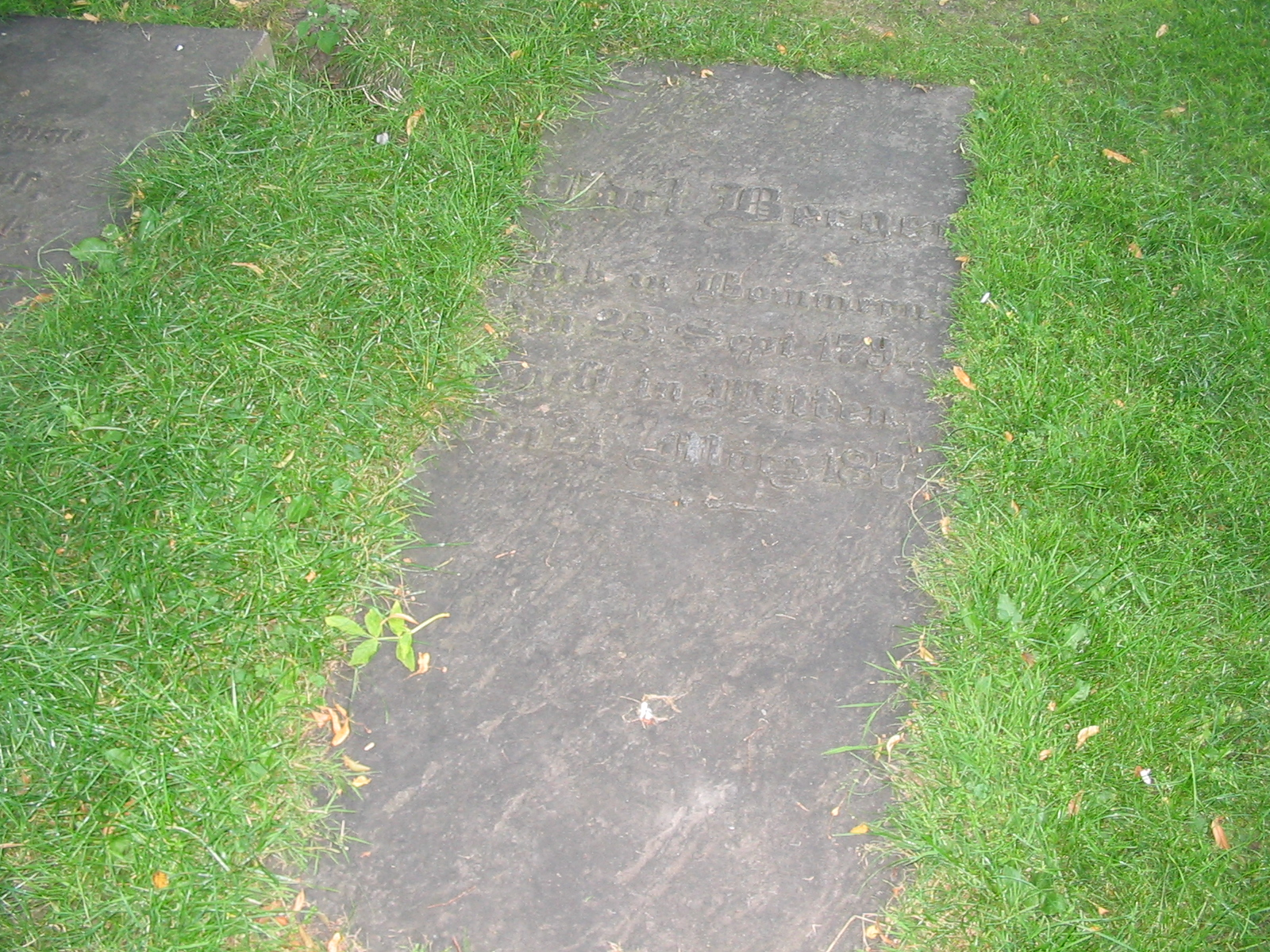 tombstone Carl Berger in Witten